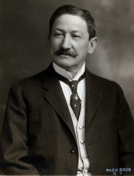 Portrait of theatre producer William Harris Sr. (1844-1916) by Pach. Bros., NY